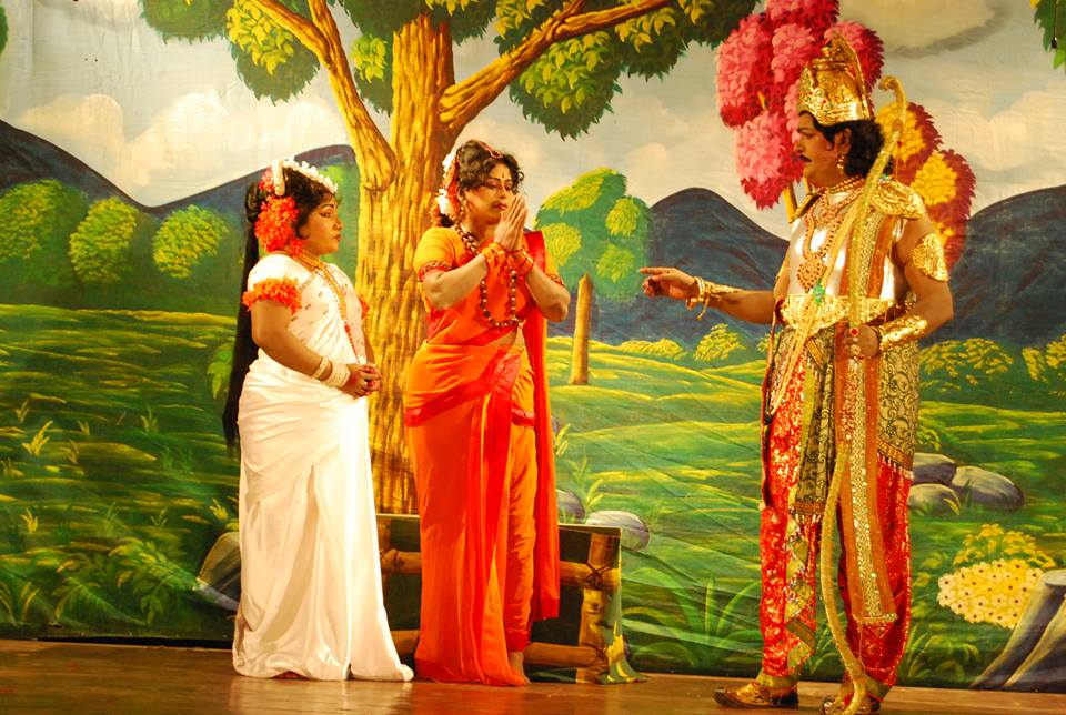 పద్యనాటకంలో ముఖ్యపాత్రధారిగా